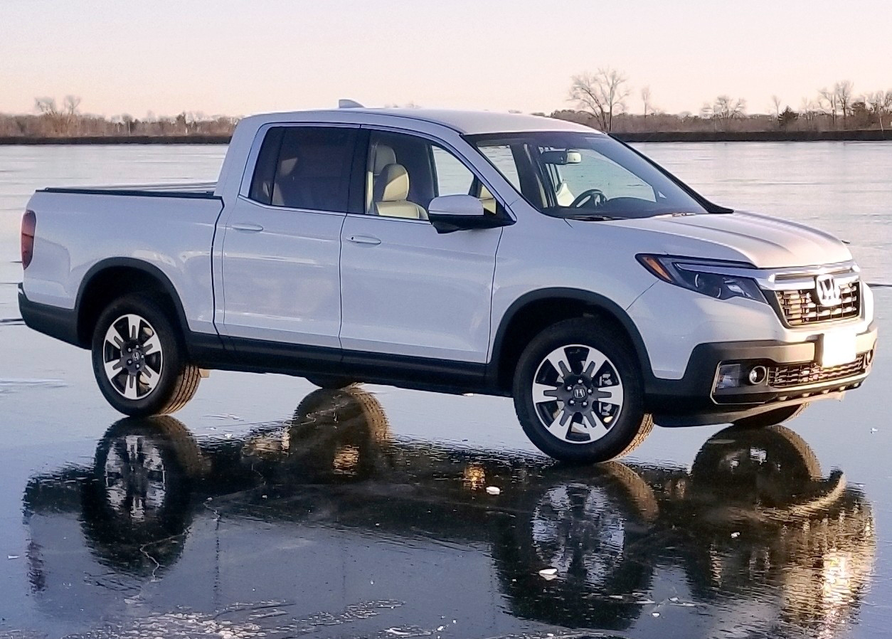 Picture of a 2018 US Honda Ridgeline RTL-T—with aftermarket BAKFlip F1 tonneau cover—parked on an iced-over Rock Lake near Lake Mills, Wisconsin, US